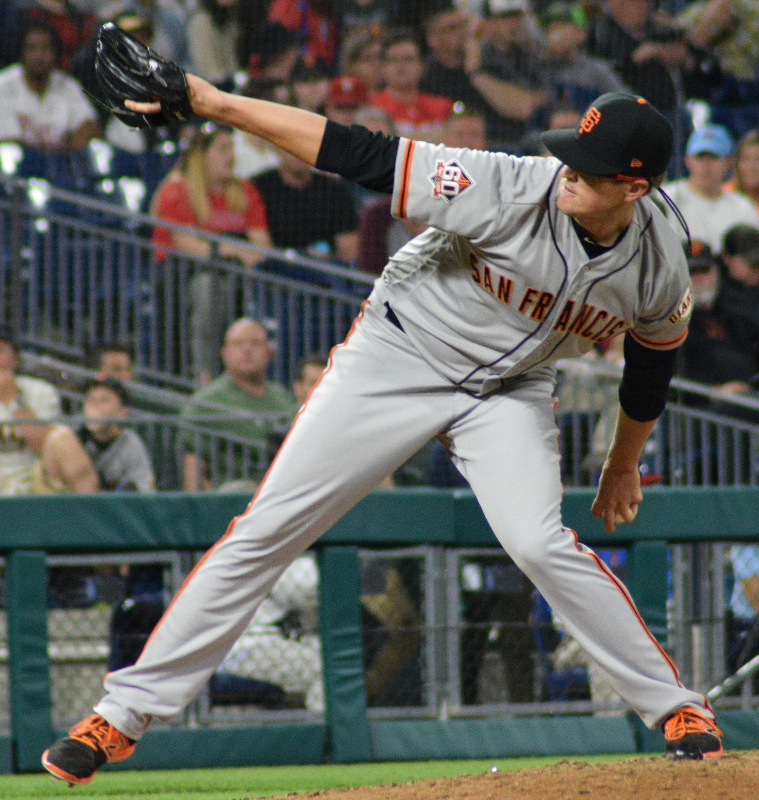 D.J. Snelten